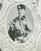 Portrait of SMAC member Hristo Tanushev from Krushevo